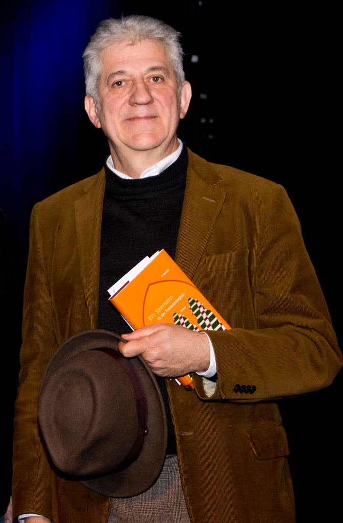 The German actor Ilja Richter